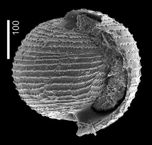 Apertural view of juvenile shell of Oxygyrus keraudrenii from the Pliocene. Locality: sample Anda1, Anda, Pangasinan, Luzon, Philippines. Registration number (RGM) 539 783.